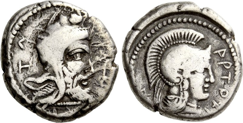 DYNASTS of LYCIA. Artumpara. Circa 400-370 BC